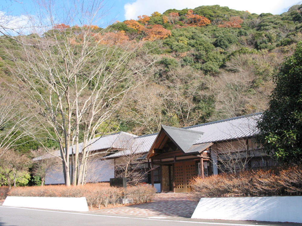 Junnosuke Yoshiyuki Museum of Literature, at the Nemunoki-mura ねむの木村にある吉行淳之介文学館 静岡県掛川市上垂木あかしあ通りで撮影